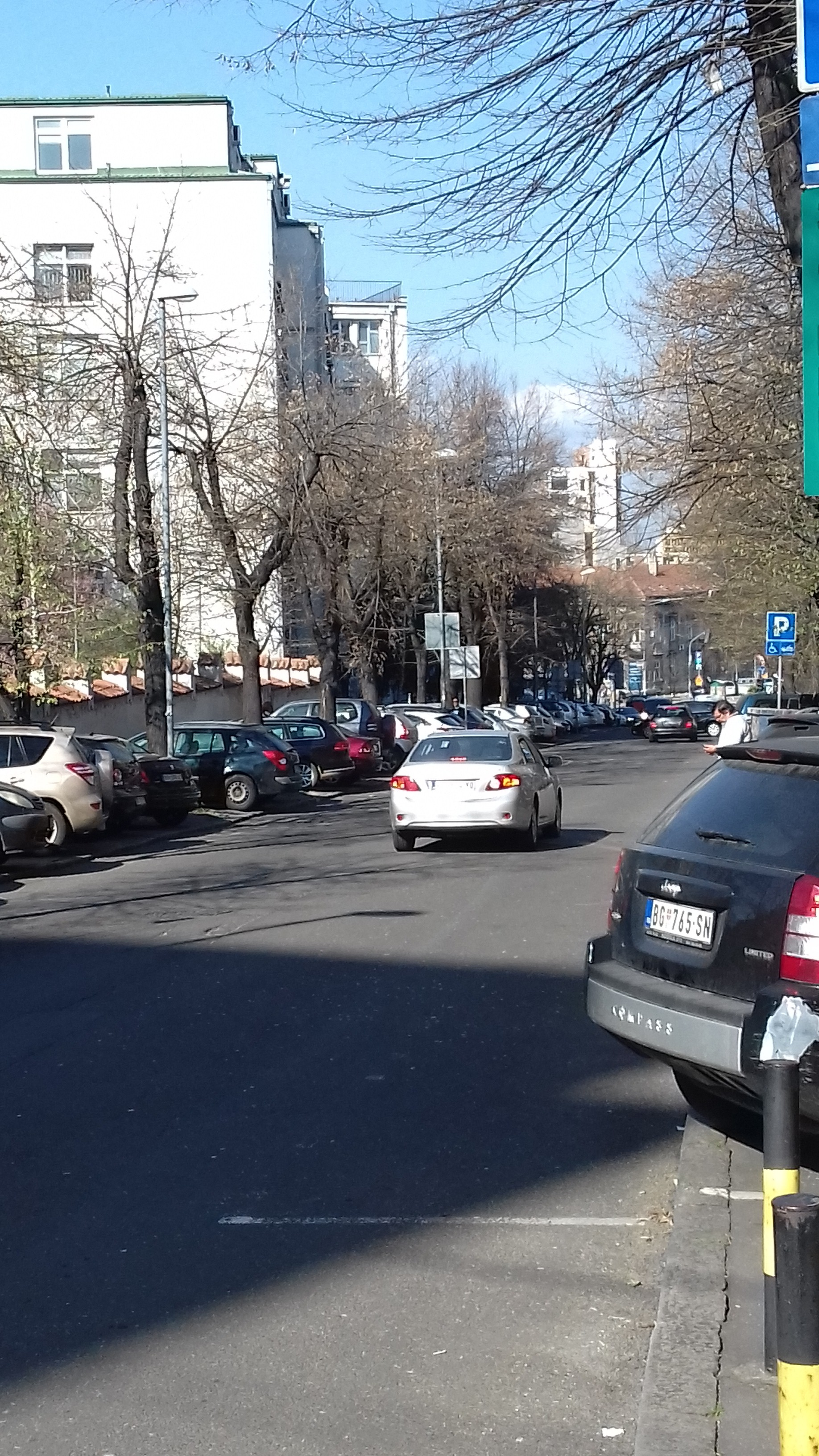 View on Milana Kasanina street from the Dzordza Vasingtona street, Belgrade, Serbia Srpski (latinica): Pogled na ulicu Milana Kasanina iz ulice Dzordza Vasingtona u Beogradu, Srbija